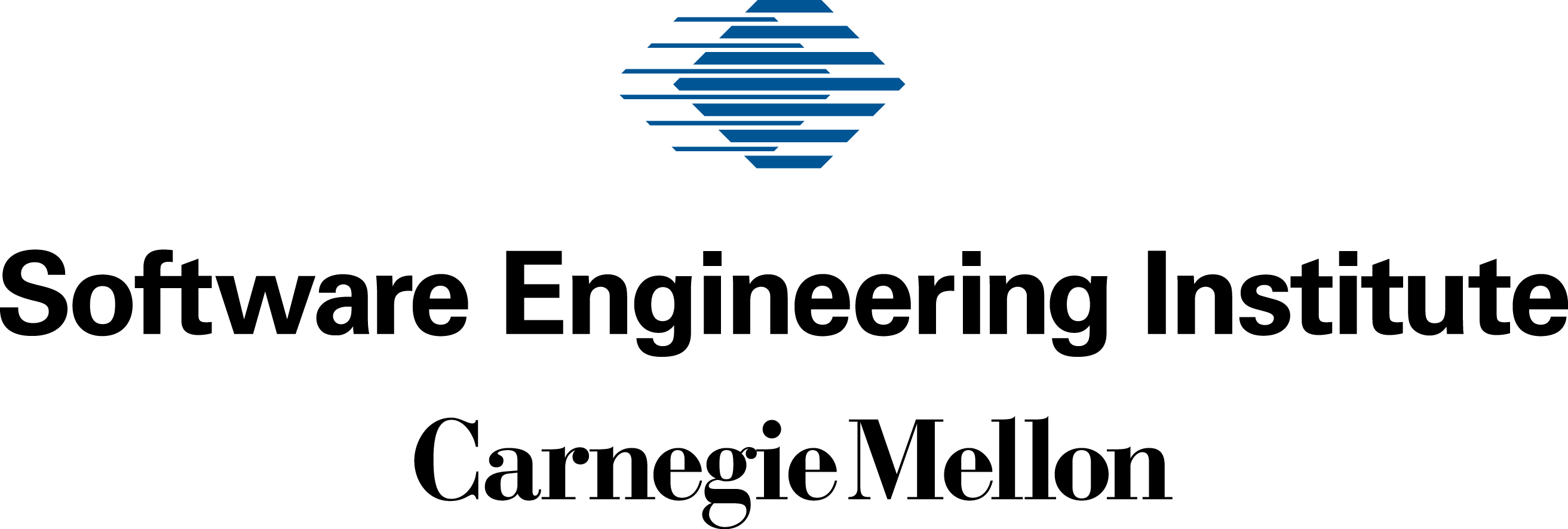 Logo of the Software Engineering Institute, a research & development organization operated by Carnegie Mellon University for the U.S. Department of Defense.